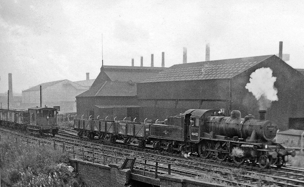 Shunting operations at Wednesbury. View SE, towards Walsall; ex-London & North Western Lichfield - Walsall - Dudley (South Staffordshire) line, which finally closed along this stretch on 19/3/93 although passenger services ceased on 6/7/64. The locomotive is LMS Ivatt 2MT 2-6-0 No. 46421. [Precise location of scene uncertain].